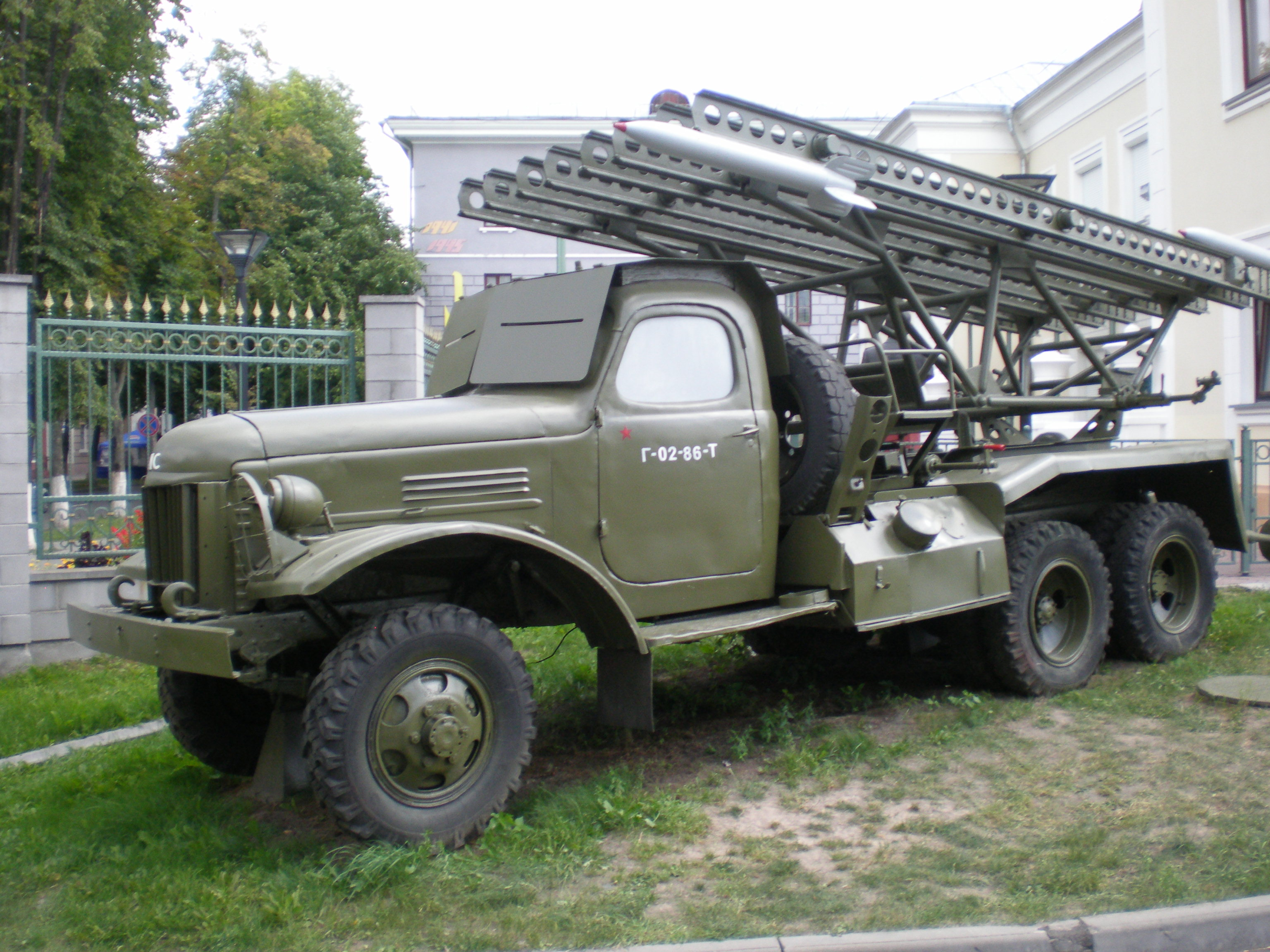 BM-13-16 on a ZiS-151 chassis in a military museum in Belarus.